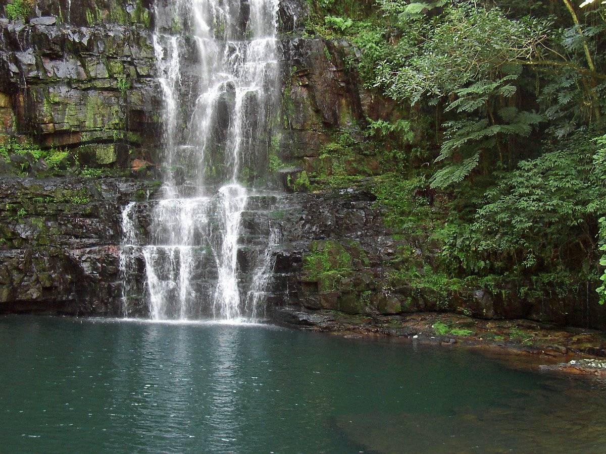 Author: own work Date: 2005-04-23 Description: Salto Cristal (Crystal Falls), Yvyku'i National Park.